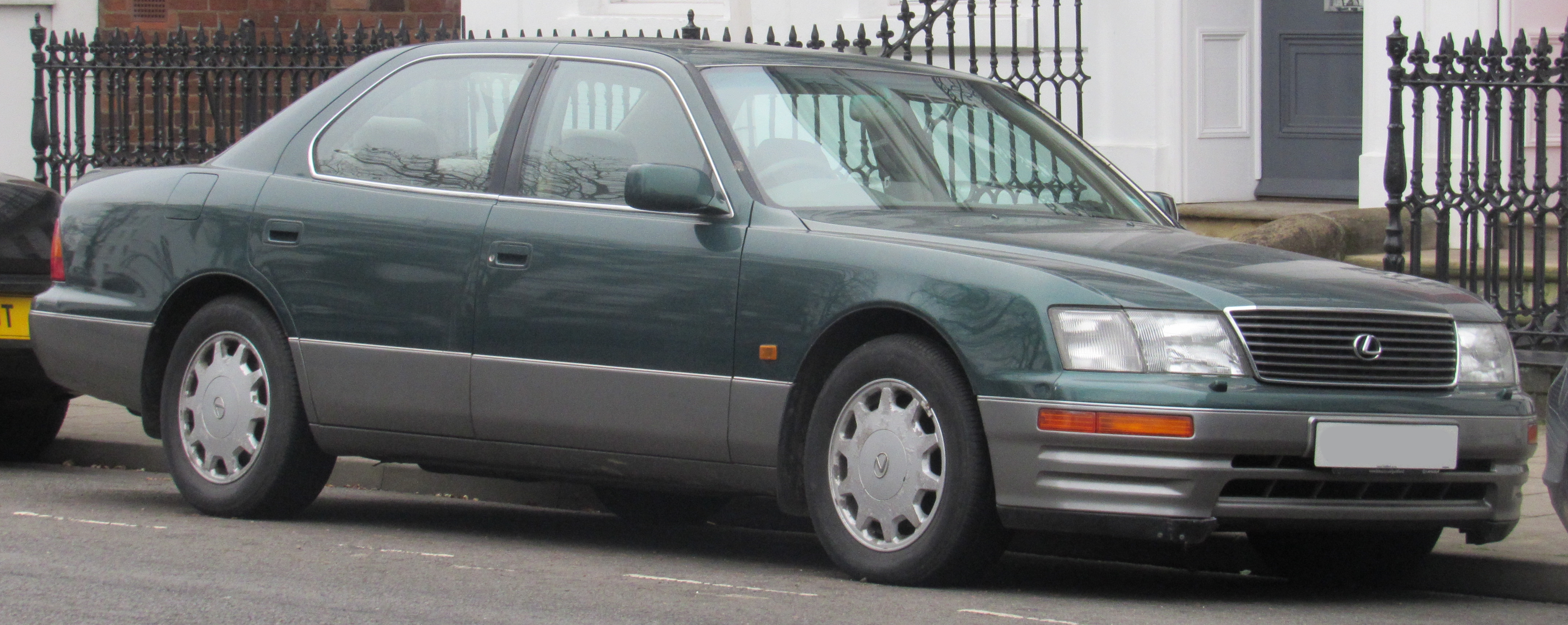 1996 Lexus LS 400 4.0 Front Taken in Leamington Spa